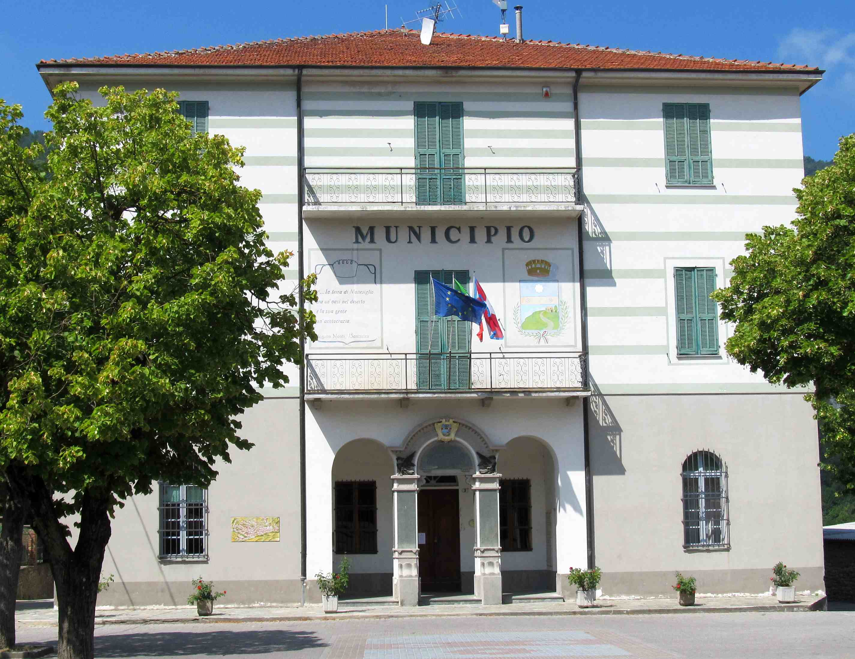 Monesiglio (CN, Italy): town hall